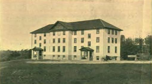 This is a picture of the Seminary building constructed 1913. Later on, it became the dormitory and cafeteria.